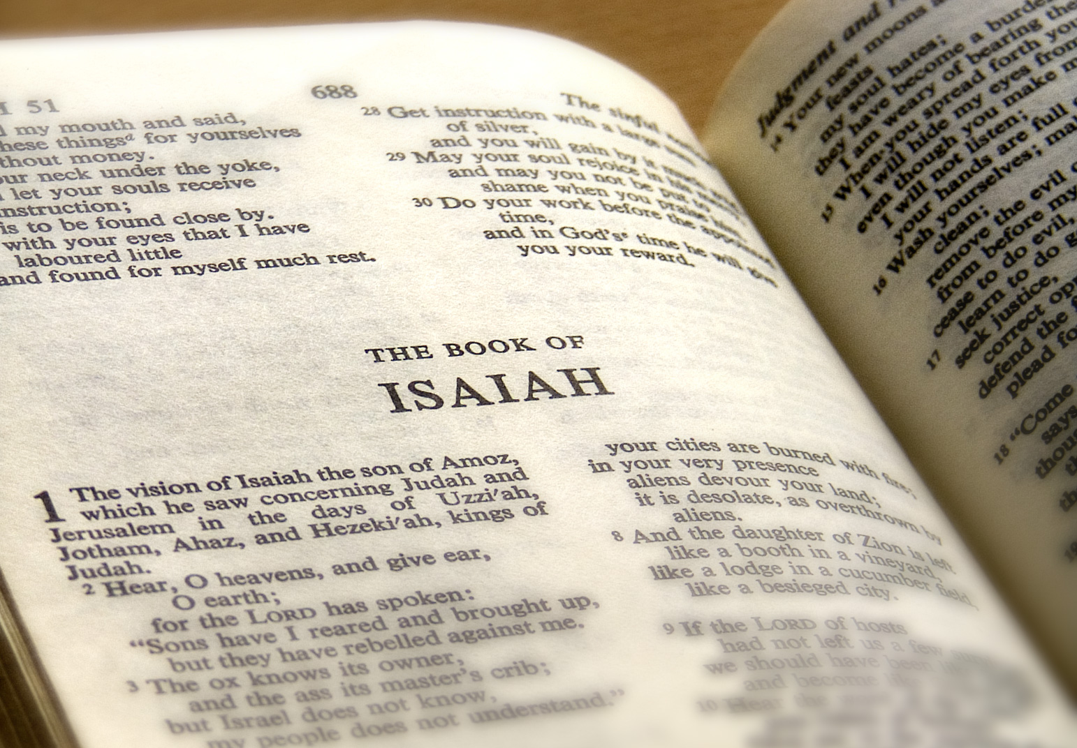 Photo of the Book of Isaiah page of the Bible (cropped version)